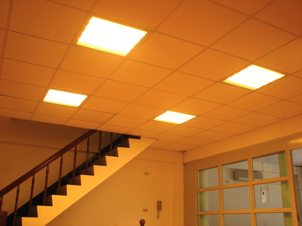 Dropped ceiling equipped with 3000K LED lighting